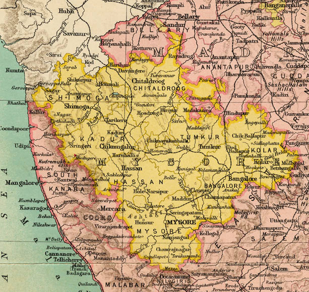 map extract Mysore